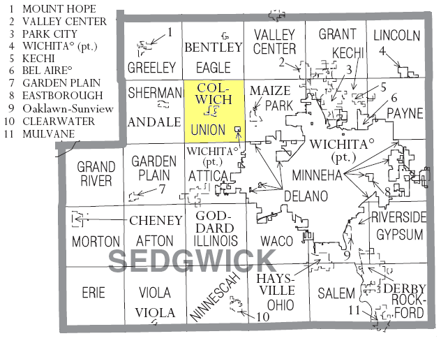 Map of Sedgwick County, Kansas highlighting Union Township